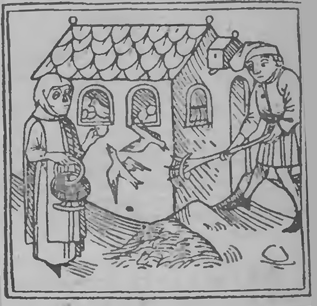 Incubator in Middle Ages. From the engraving of 1481 year.